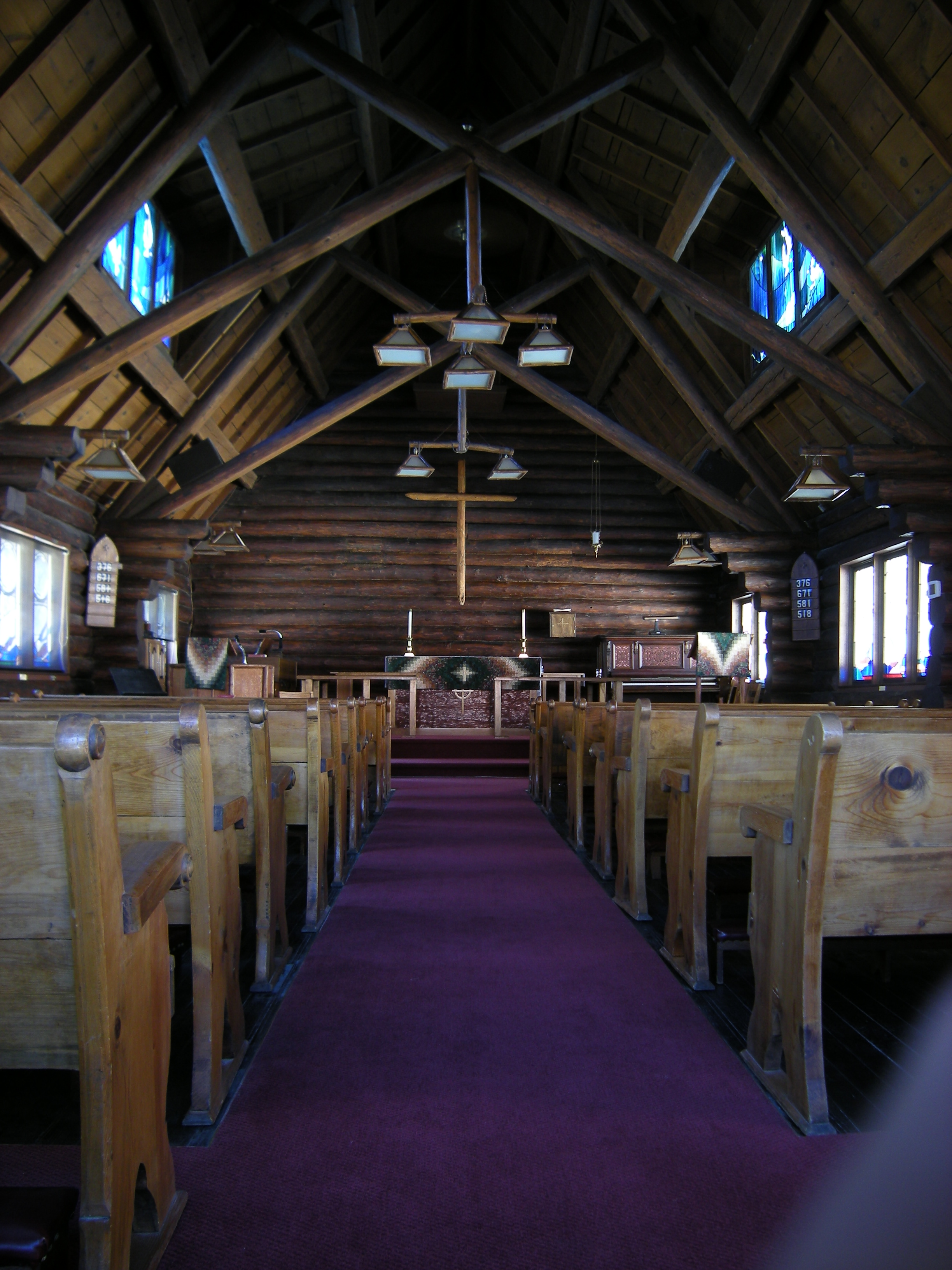 Interior, St. Andrew's Episcopal Church, Chelan, Washington. The church is listed on the National Register of Historic Places.